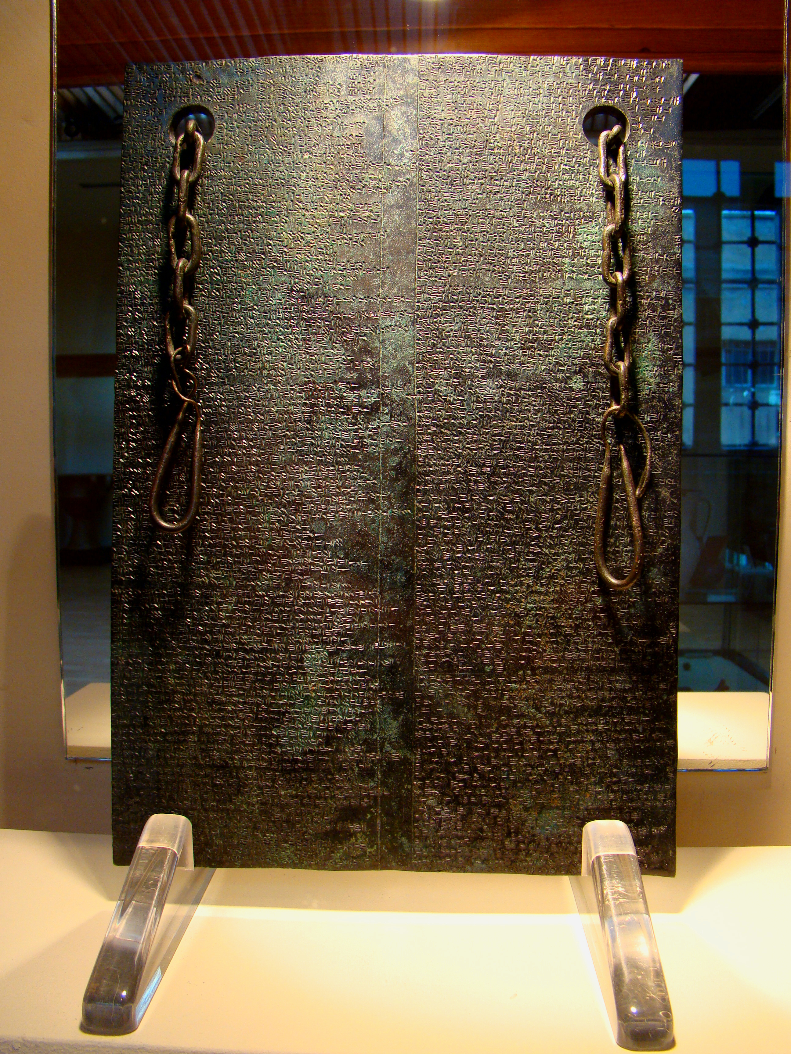 Bronze tablet from Çorum-Boğazköy dating from 1235 BC. Photographed at Museum of Anatolian Civilisations. This cuneiform document excavated at Hattusa in 1986 is the only bronze tablet found in Anatolia. It casts light upon the historical geography of Anatolia in the 2nd millennium BCE, testifying to the treaty between Tudhaliya IV and Kurunta of Tarhuntassa in 1235BCE. With this treaty Tudhaliya promises the sovereignty of Tarhuntassa and another territory to Kurunta and his sons for the future, although Kurunta is advised to not want to imitate Tudhaliya's "Great Kingdom". "Thousands of Gods" are listed as divine witnesses for the validity of this treaty.